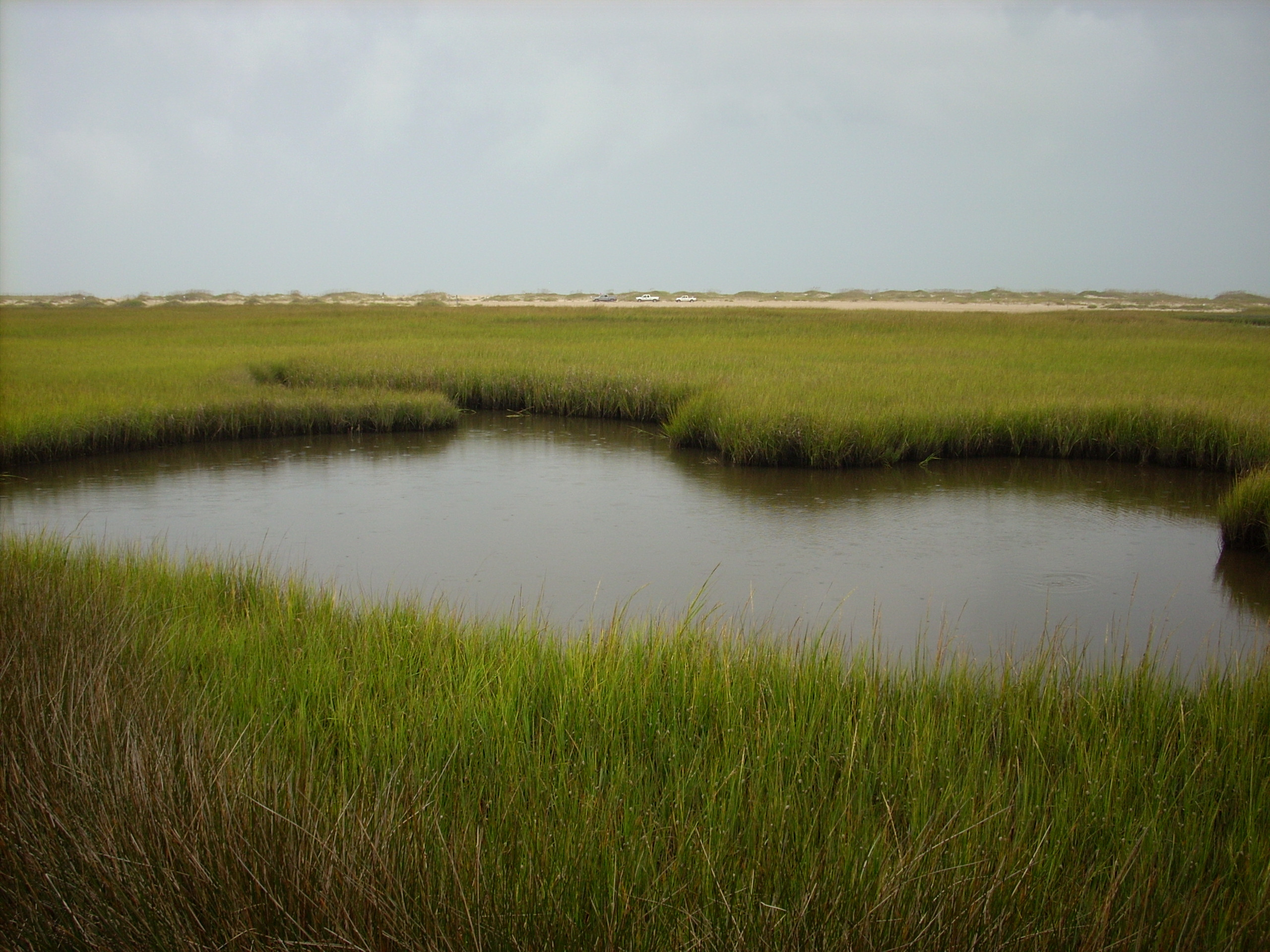 A salt marsh at Fort Fisher State Recreation Area